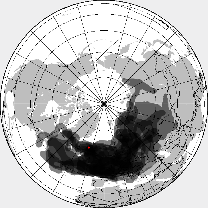 This is a composite map showing the position of the Icelandinc volcanic ash cloud that closed European air space in different days. Based on maps found at Days included: 14 April 2010, 12:00 UTC 14 April 2010, 18:00 UTC 15 April 2010, 18:00 UTC 16 April 2010, 18:00 UTC 17 April 2010, 18:00 UTC 18 April 2010, 18:00 UTC 19 April 2010, 18:00 UTC 20 April 2010, 18:00 UTC 21 April 2010, 18:00 UTC 22 April 2010, 18:00 UTC 23 April 2010, 18:00 UTC 24 April 2010, 18:00 UTC 25 April 2010, 18:00 UTC